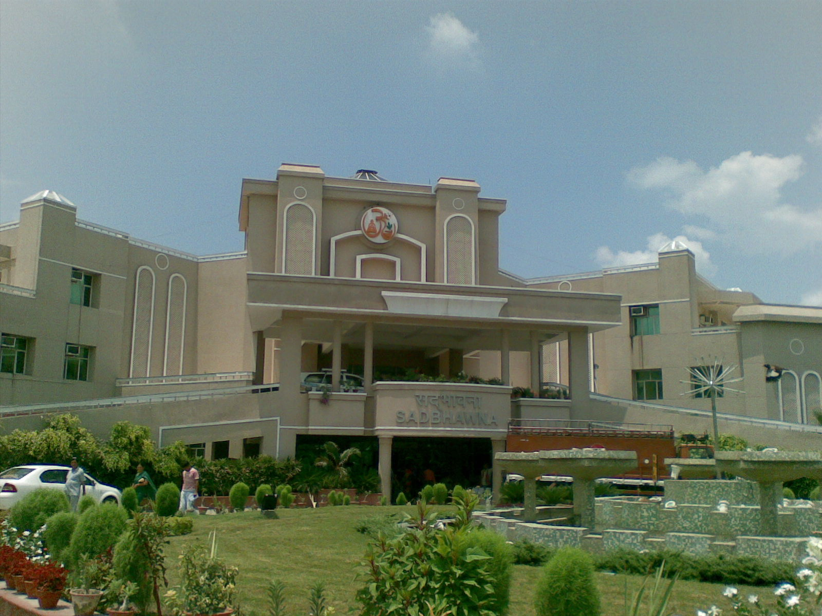 Main Building of Pantanjali Yogpeeth ,Haridwar